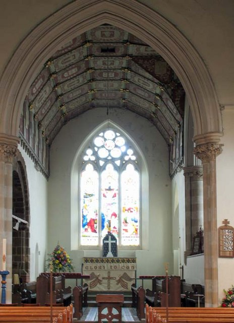 St Peter, Lilley, Herts - Chancel